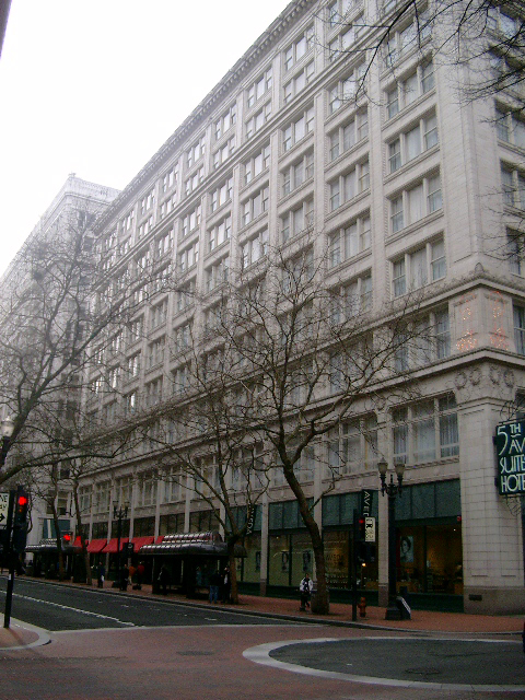 The Fifth Avenue Suites Hotel in Portland, Oregon, in 2002 – the 5th Avenue side, viewed across the intersection of 5th & Washington. The hotel was renamed Hotel Monaco in 2007. The building was formerly the flagship store of the Lipman-Wolfe chain of department stores (later known as Lipman's). Under the name Lipman-Wolfe and Company Building, it is listed on the U.S. National Register of Historic Places (NRHP).